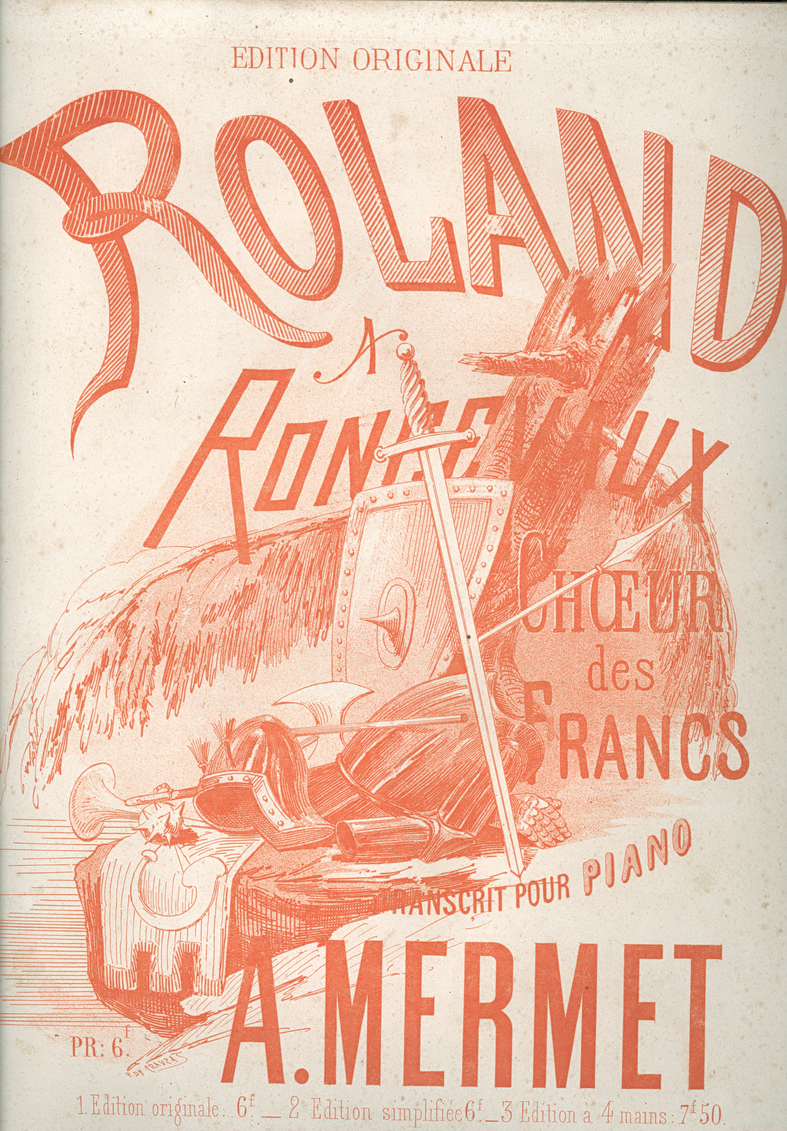 Public domain, music cover, published c. 1864, in Paris, France, for Auguste Mermet's four-act opera, ROLAND A RONCEVAUX.